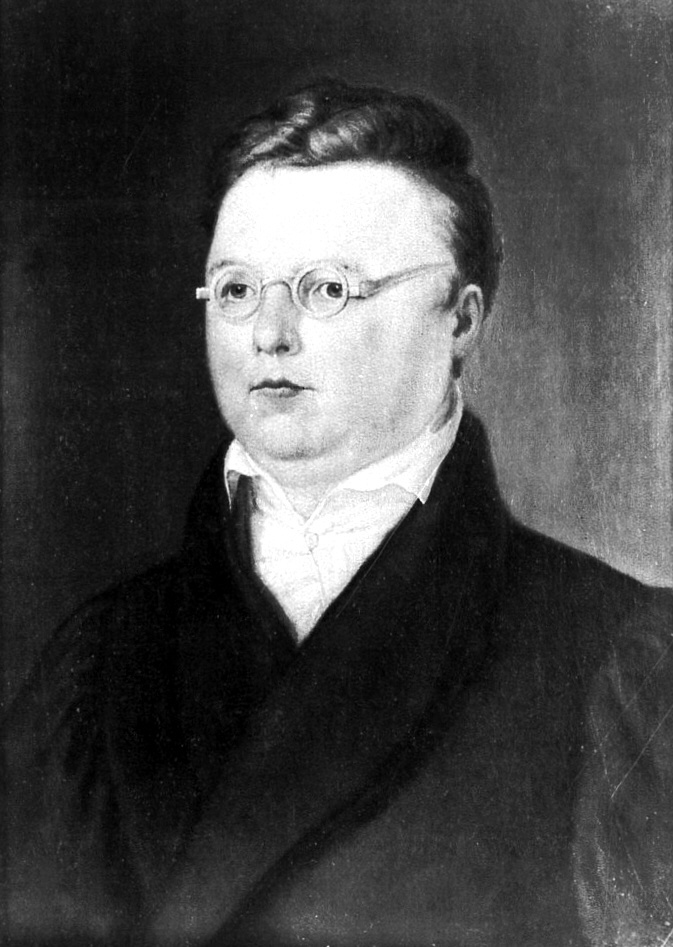 Friedrich Arnold Brockhaus, bookseller and founder of the Brockhaus Encyclopedia; painting of an unknown master after a drawing by Carl Vogel von Vogelstein.